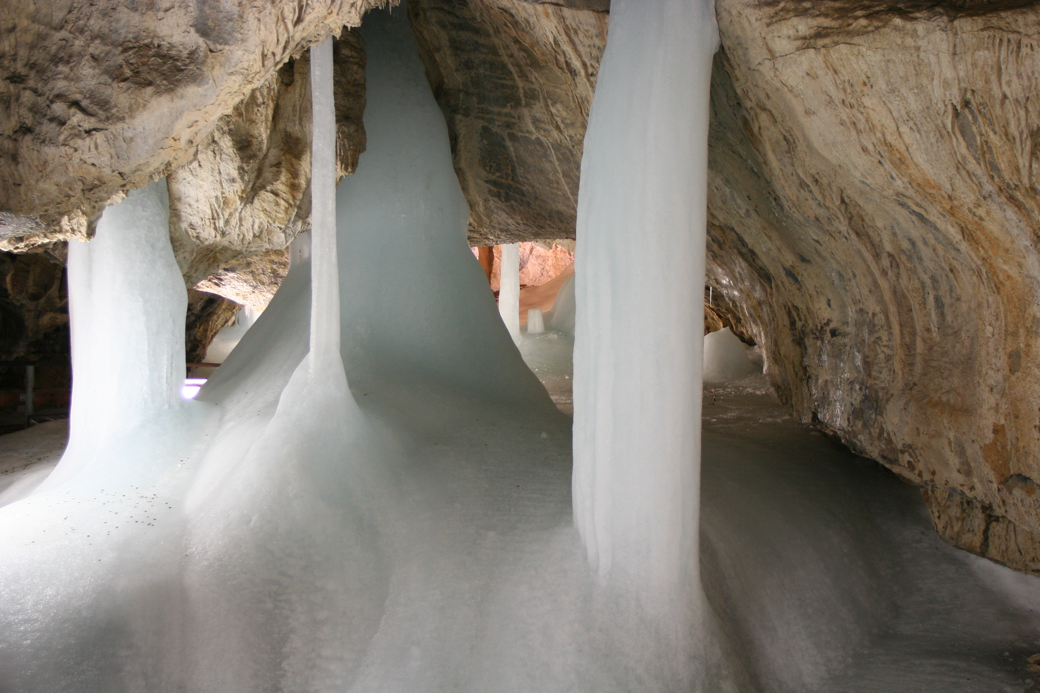 Demänová Ice Cave (Demänovská ľadová jaskyňa), Slovakia. Taking this photo was made possible through the financial support of Wikimedia Polska.